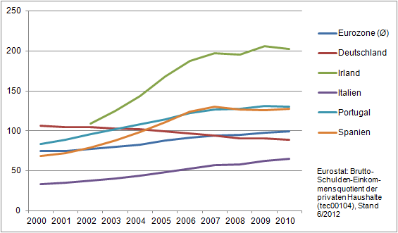 Net Debt-to-income ratio of private households within euro zone, 2000 to 2010